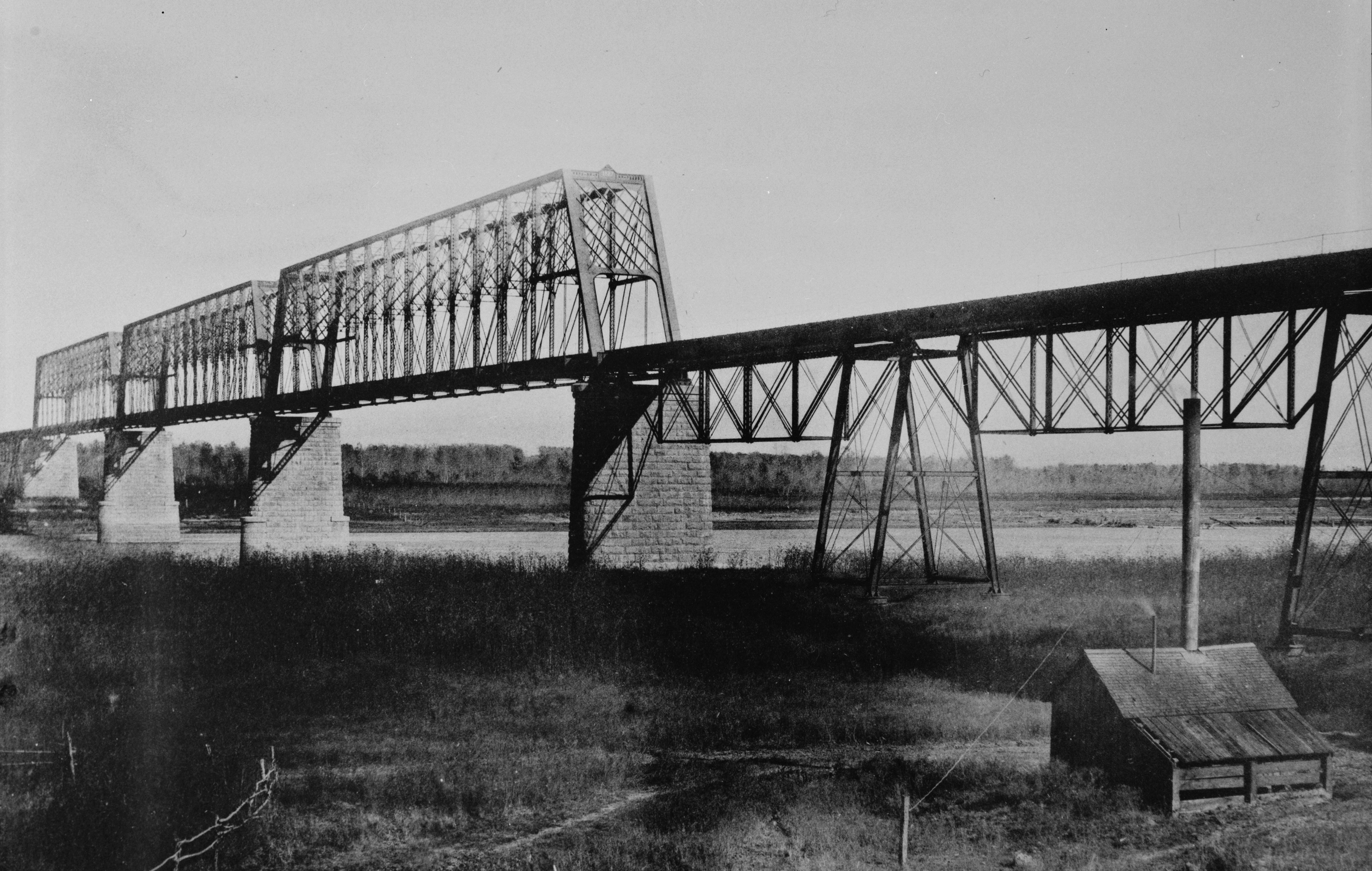 Photocopy from George S. Morison's The Rulo Bridge, 1890. Photographer unknown, circa 1887. SOUTH WEB AND EAST PORTAL OF BRIDGE - Rulo Bridge, Spanning Missouri River, Rulo, Richardson County, NE